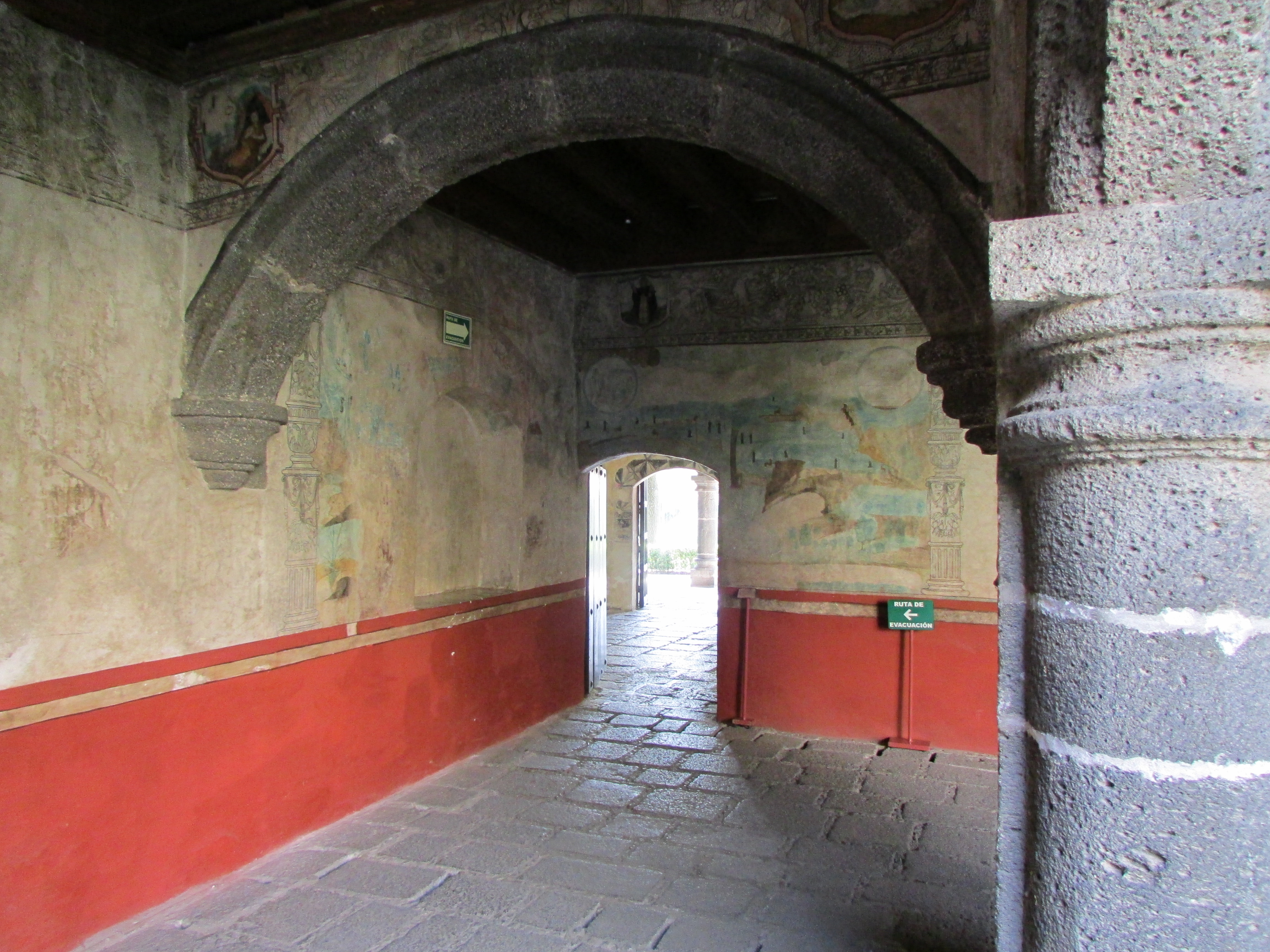 Arch and lateral exit. Lower cloister of the San Juan Evangelista ex convent at Culhuacan